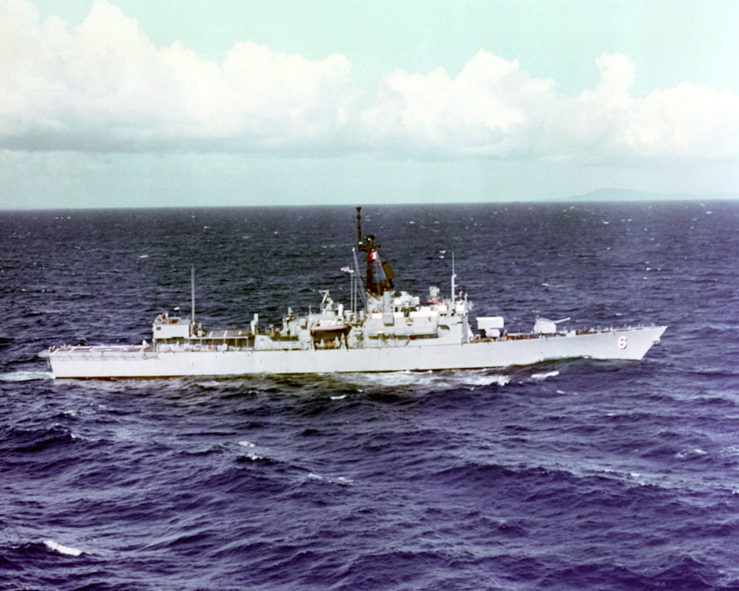 A starboard beam view of the U.S. Navy Brooke-class guided missile frigate USS Julius A. Furer (FFG-6) underway on 1 September 1984.